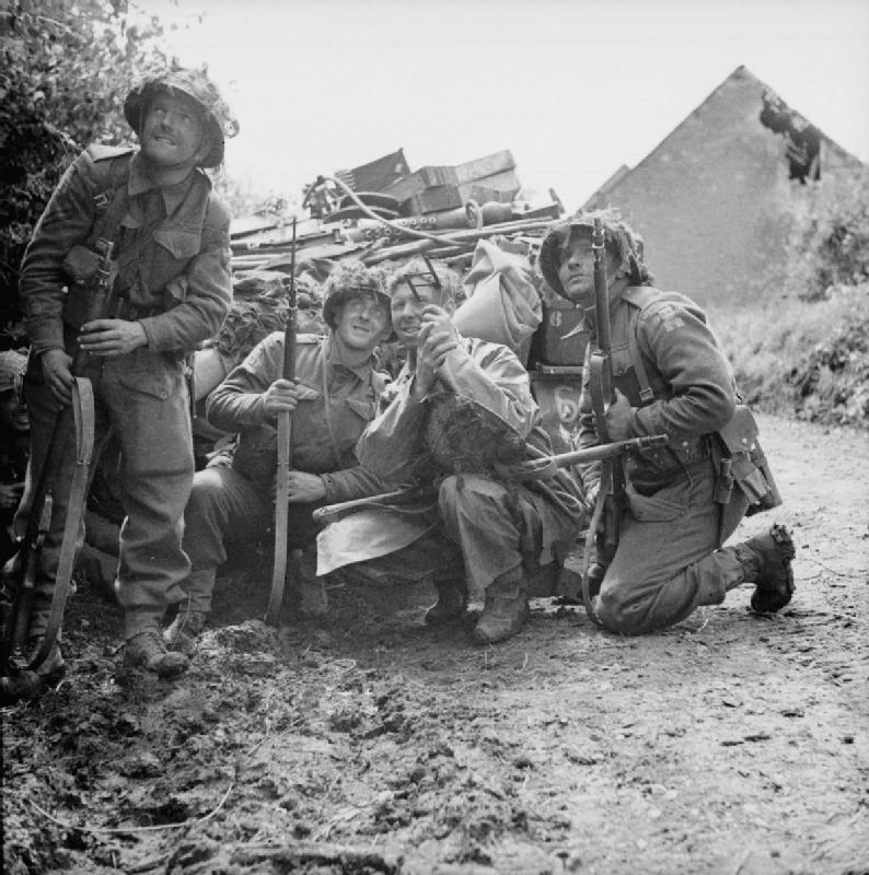 The British Army in Normandy 1944 Men of the 2nd Kensington Regiment, 49th (West Riding) Division, attempt to spot a sniper in Rauray during Operation 'Epsom', 28 June 1944.